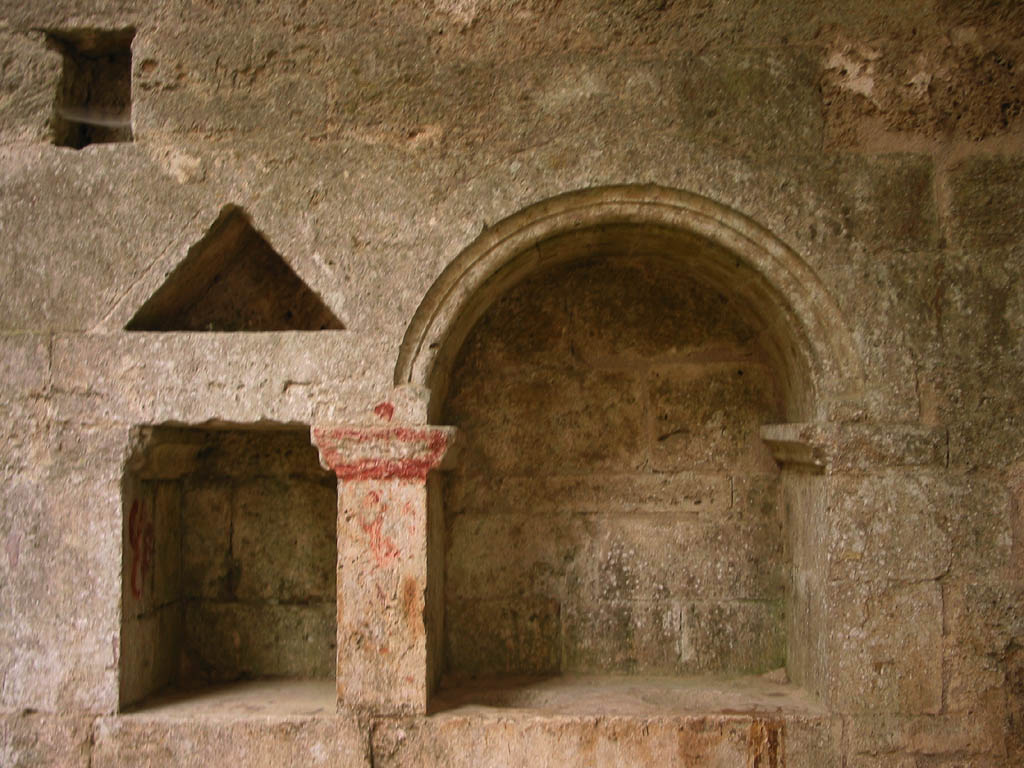 A wall from the ruins of San Galgano Abbey (Siena, Italy).